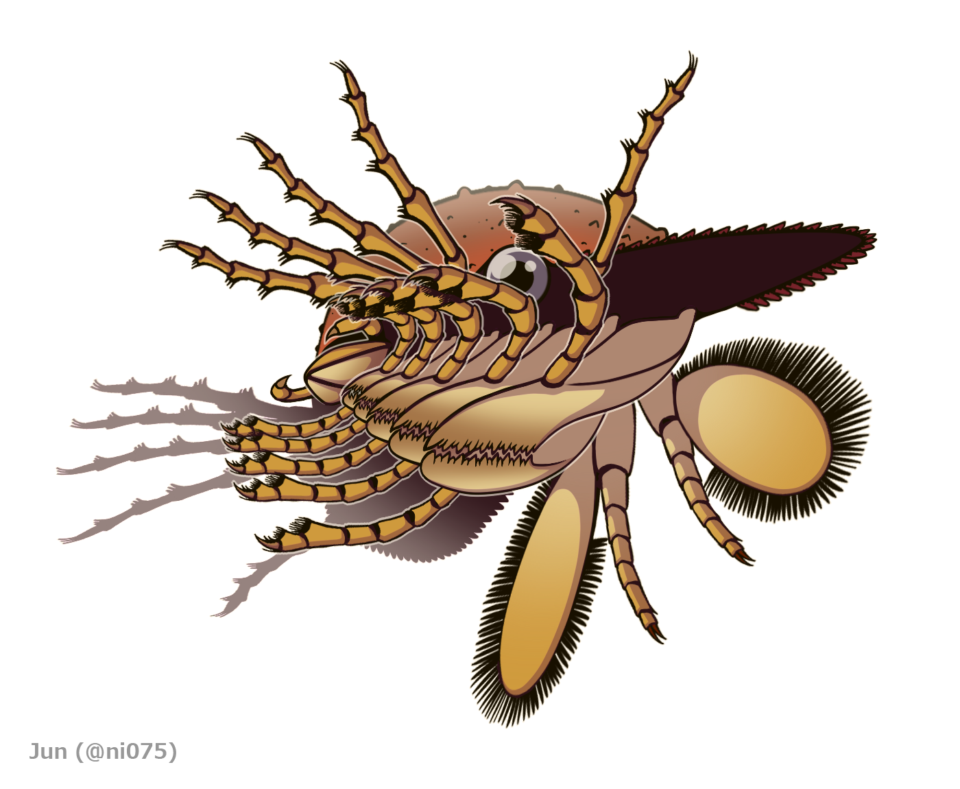 Reconstruction of the cephalic region of Habelia optata, a cambrian habeliidan (basal chelicerate) arthropod. Vental view showing set of robust gnathobases and additional 7th appendages. Note the actual insertion of exopods are unknown, and detail reconstruction of the tiny frontalmost appendages are conjectural.